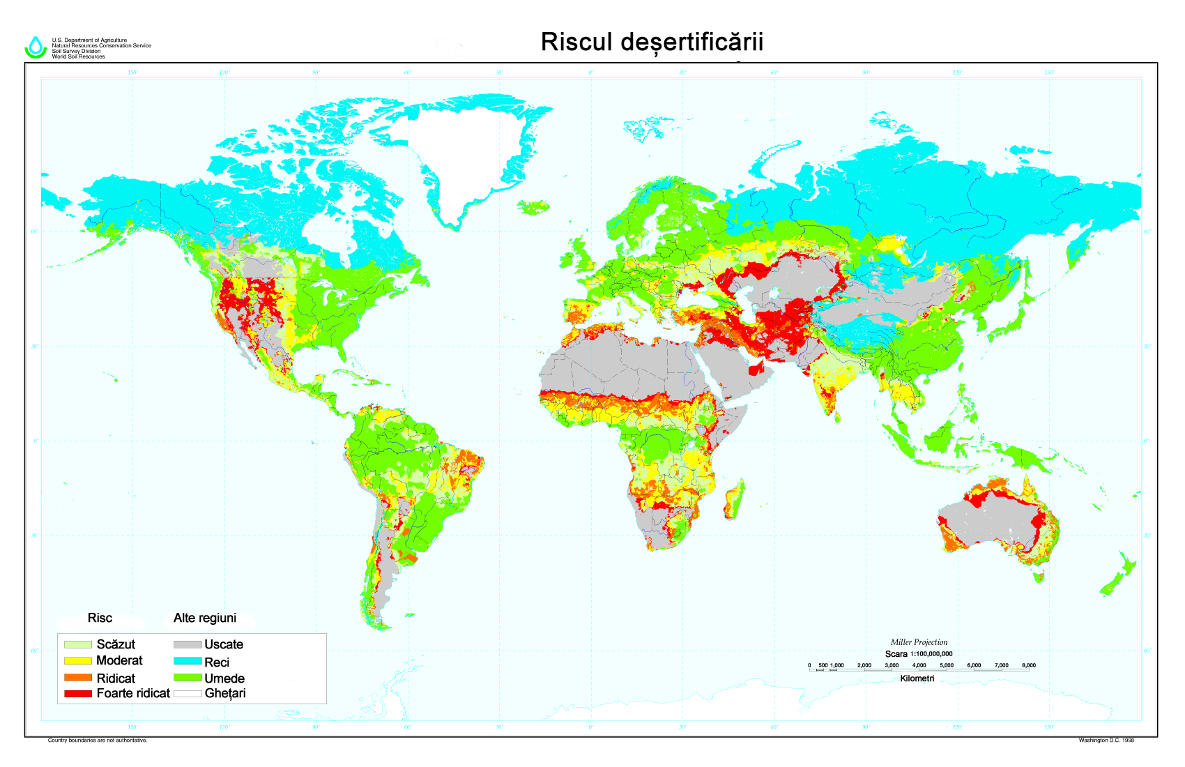 Desertification risk map.